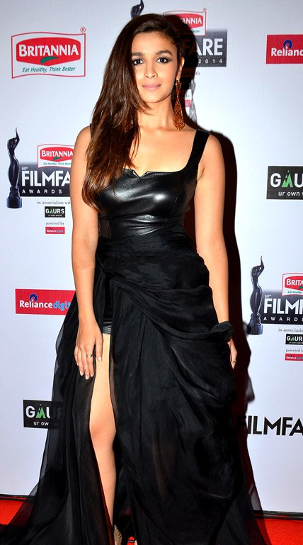 Alia Bhatt at the 59th Filmfare Awards in 2014